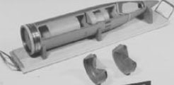 The M687 GB2 binary 155-mm projectile, which was standardized in 1976 but not produced until a decade later.